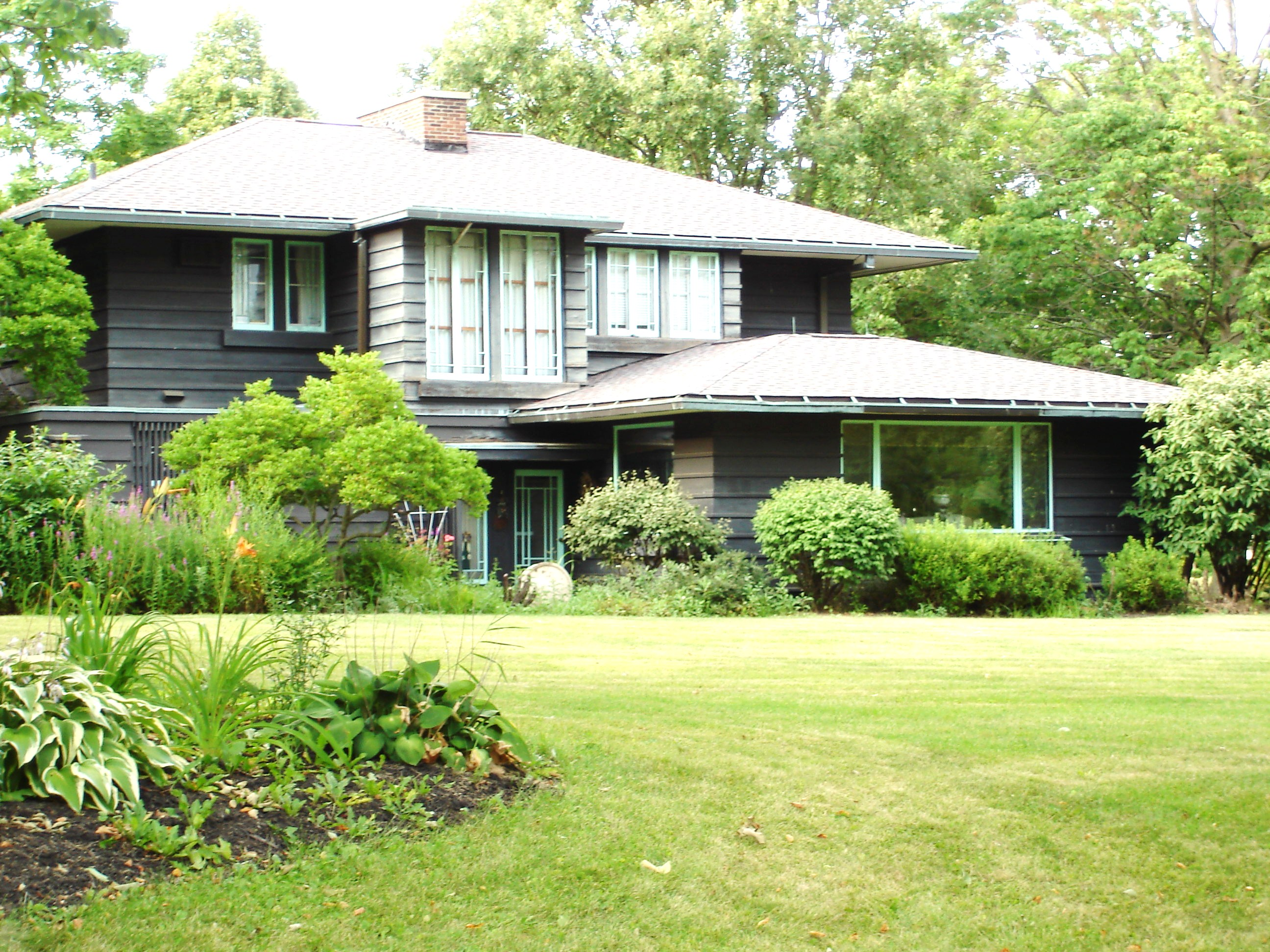 Praire Style, Marysville, Ohio, United States